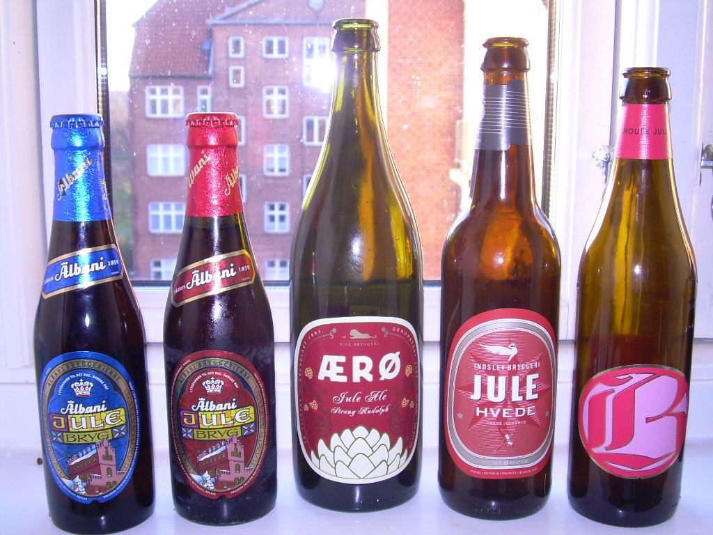 Photo of danish Christmas beers